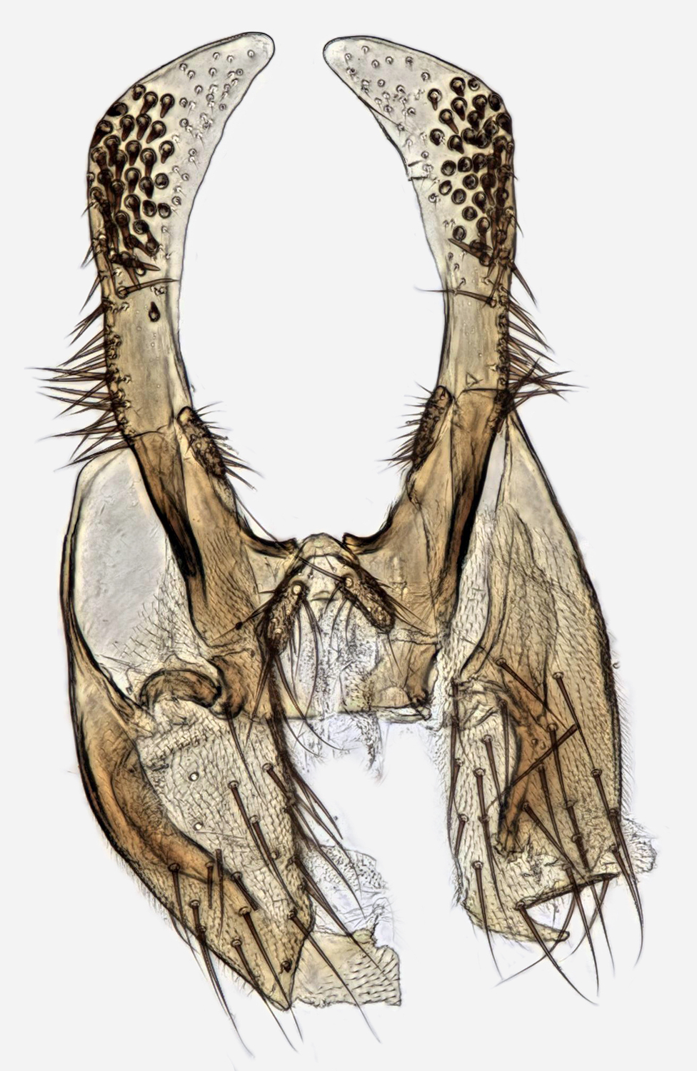 Heleomyza serrata, Trawscoed, North Wales, May 2012 2